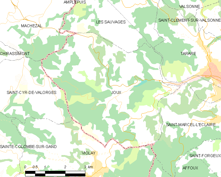 Map of French municipality